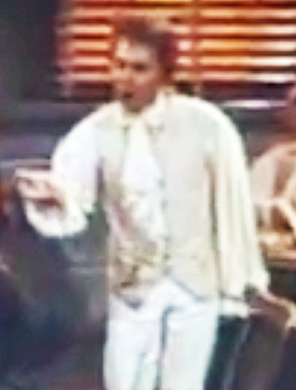 John Cullum in trailer for "1776" (1972)